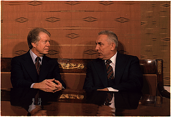 Jimmy Carter and Edward Gierek First Secretary of Poland 30 XII, 1977